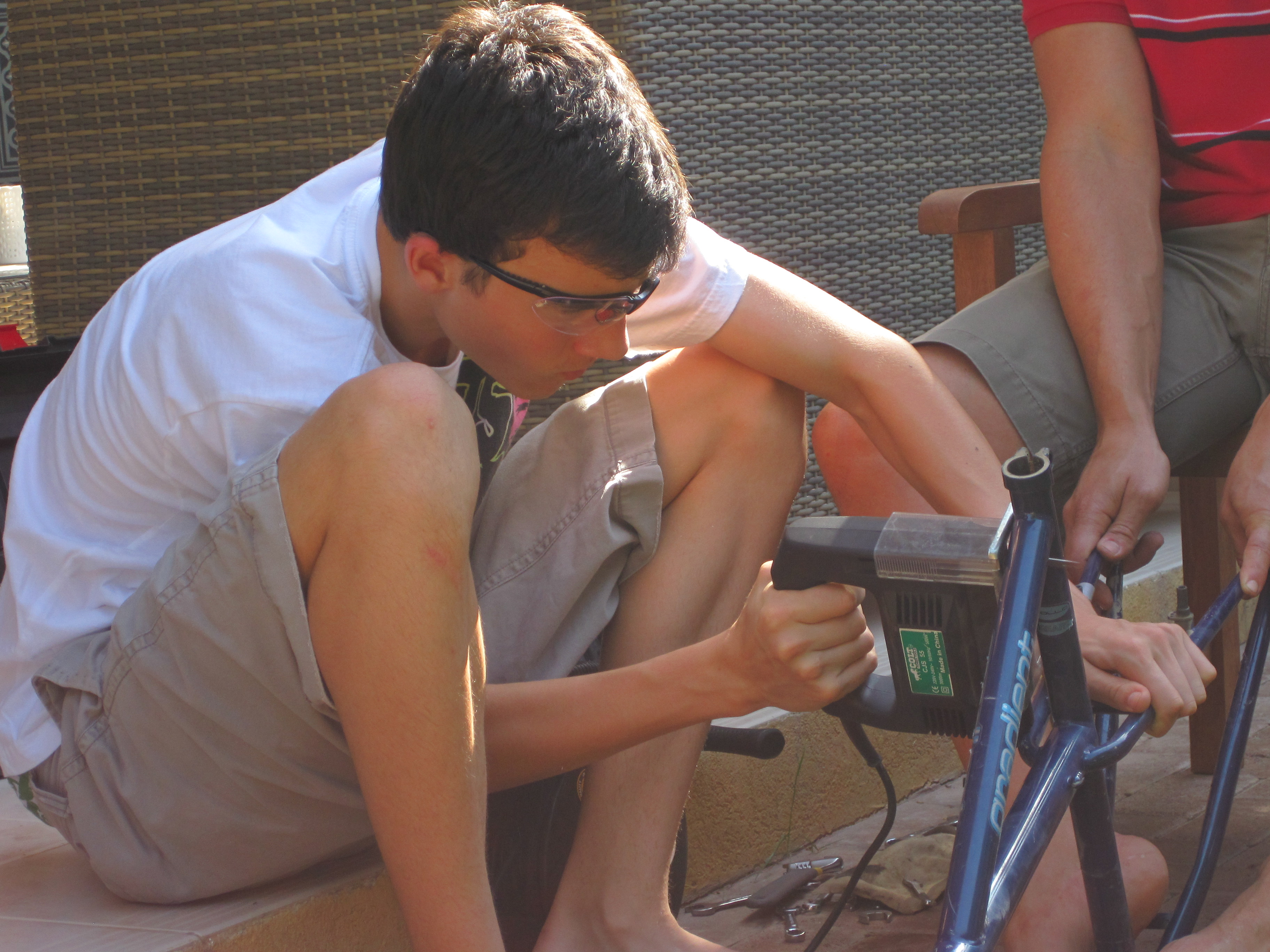 Building a fixed gear bike with my dad